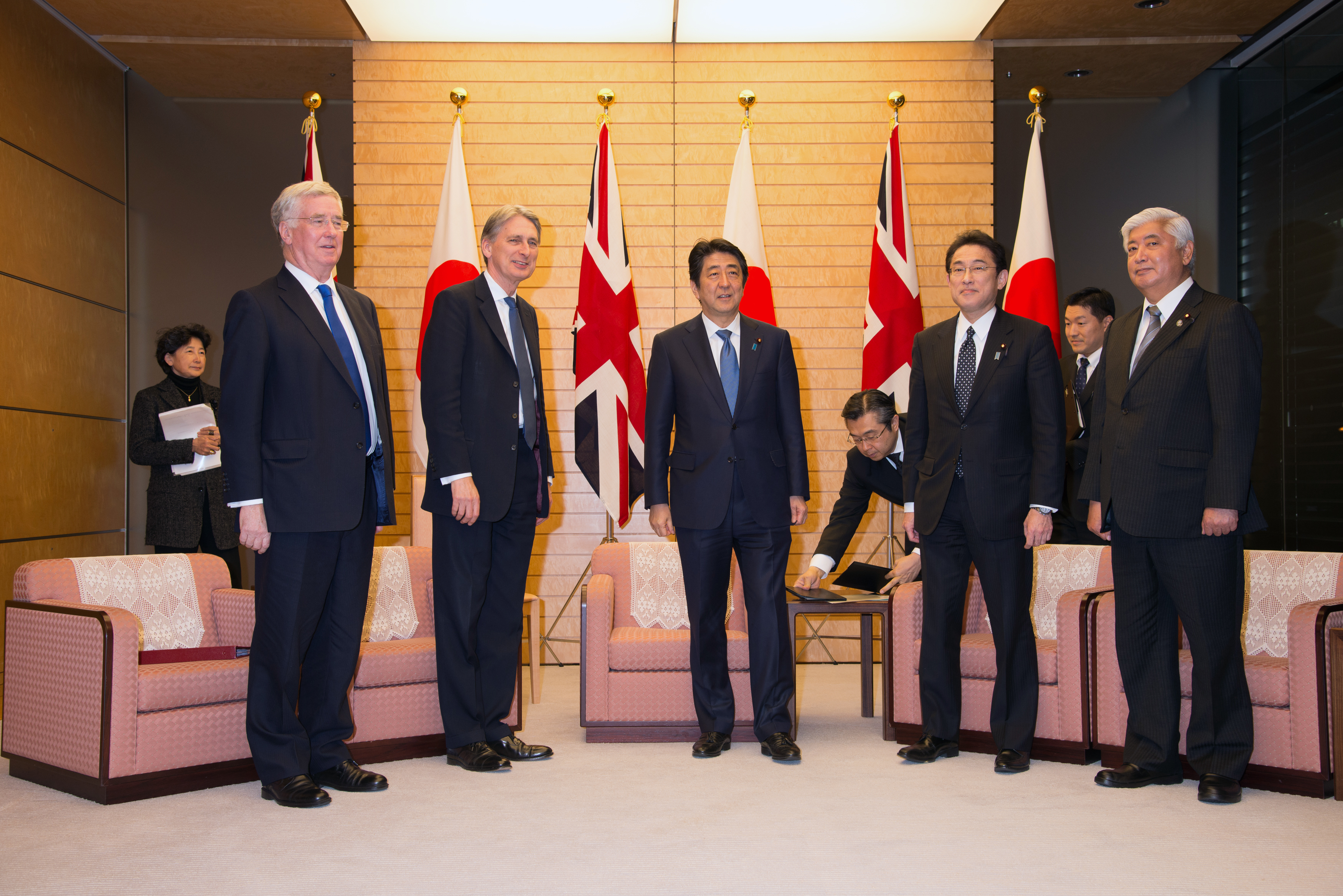 Foreign Secretary Philip Hammond and Defence Secretary Michael Fallon visit to Japan to deepen cooperation on defence and security (c)British Embassy Tokyo/Michael Feather